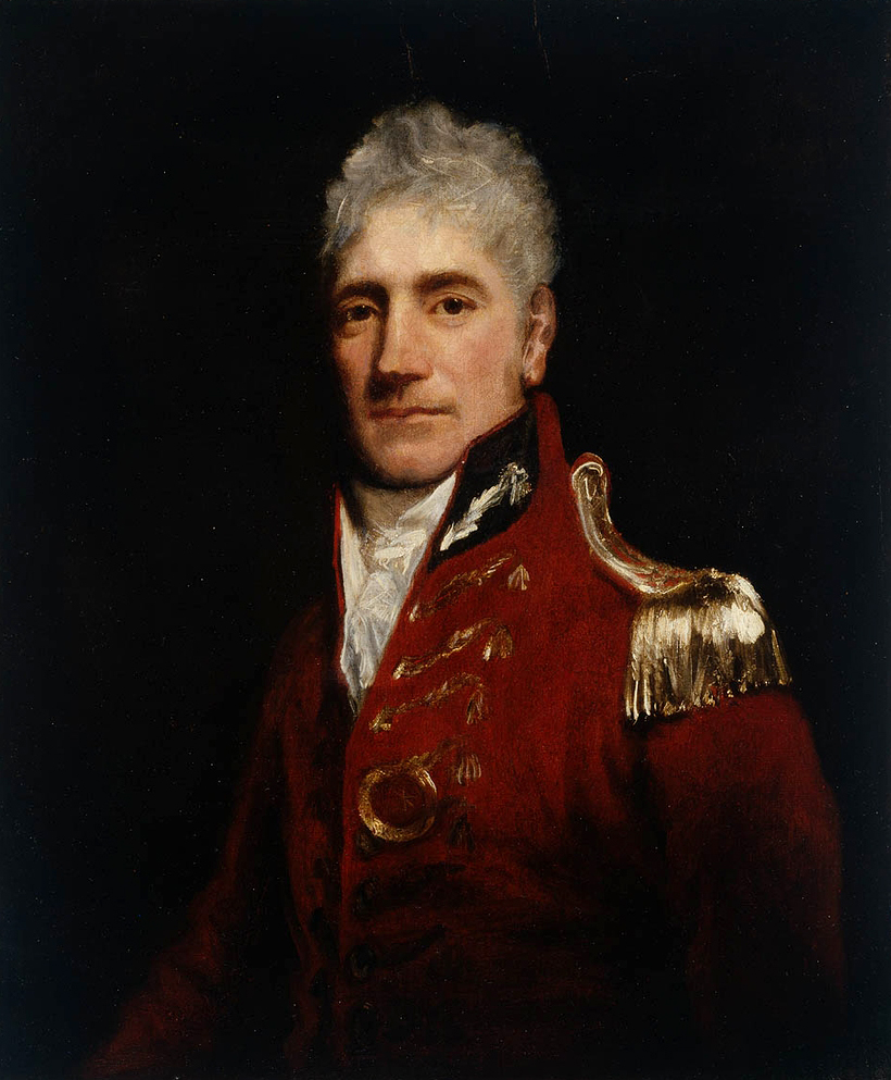 Lachlan Macquarie attributed to John Opie (1761-1807) Perhaps of Lachlan's brother Charles.Paintings : 1 oil Paintings in gilt frame ; 74.3 x 61.6 cm. inside frame; 92 x 80 cm. framed